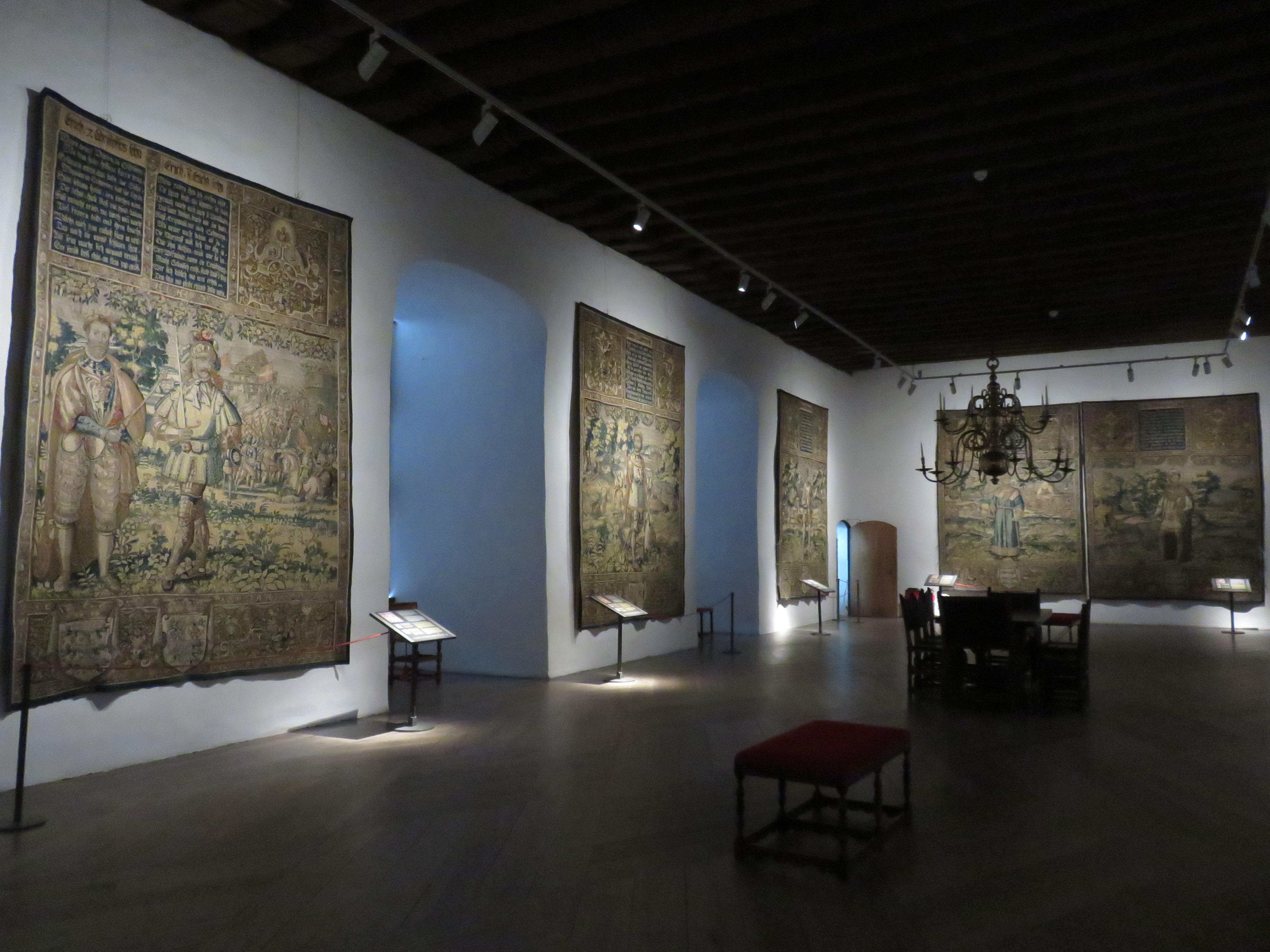 Little Hall in Kronborg Castle, Helsingør, Denmark in 2018